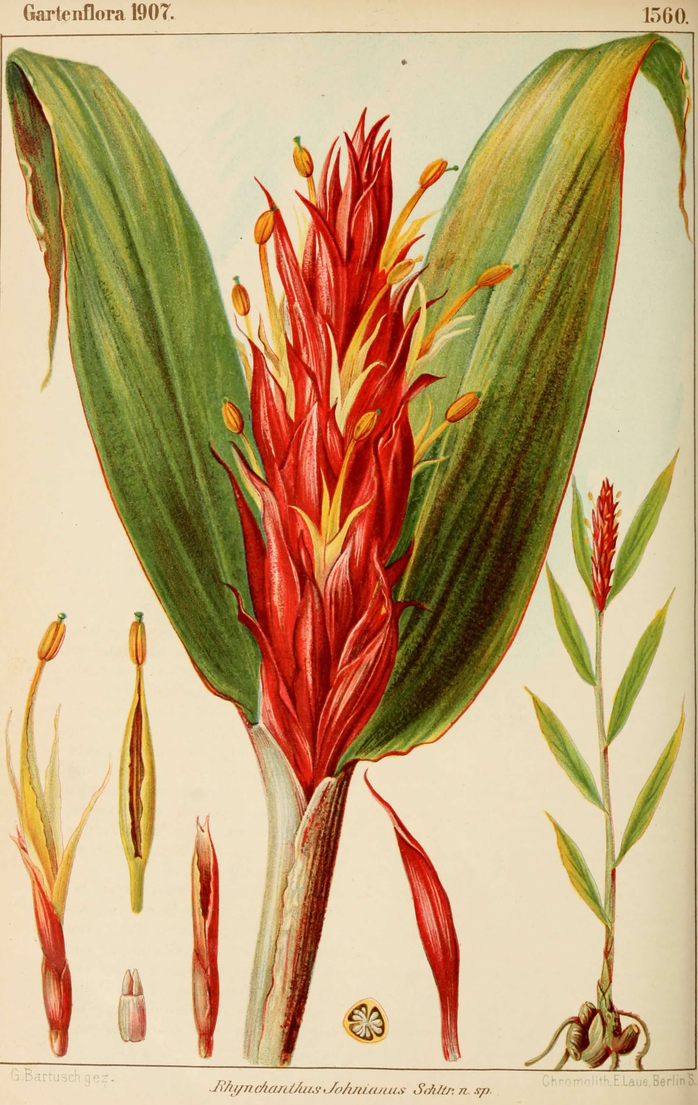 Rhynchanthus johnianus Schltr. Gartenflora [E. von Regel], vol. 56: t. 1560